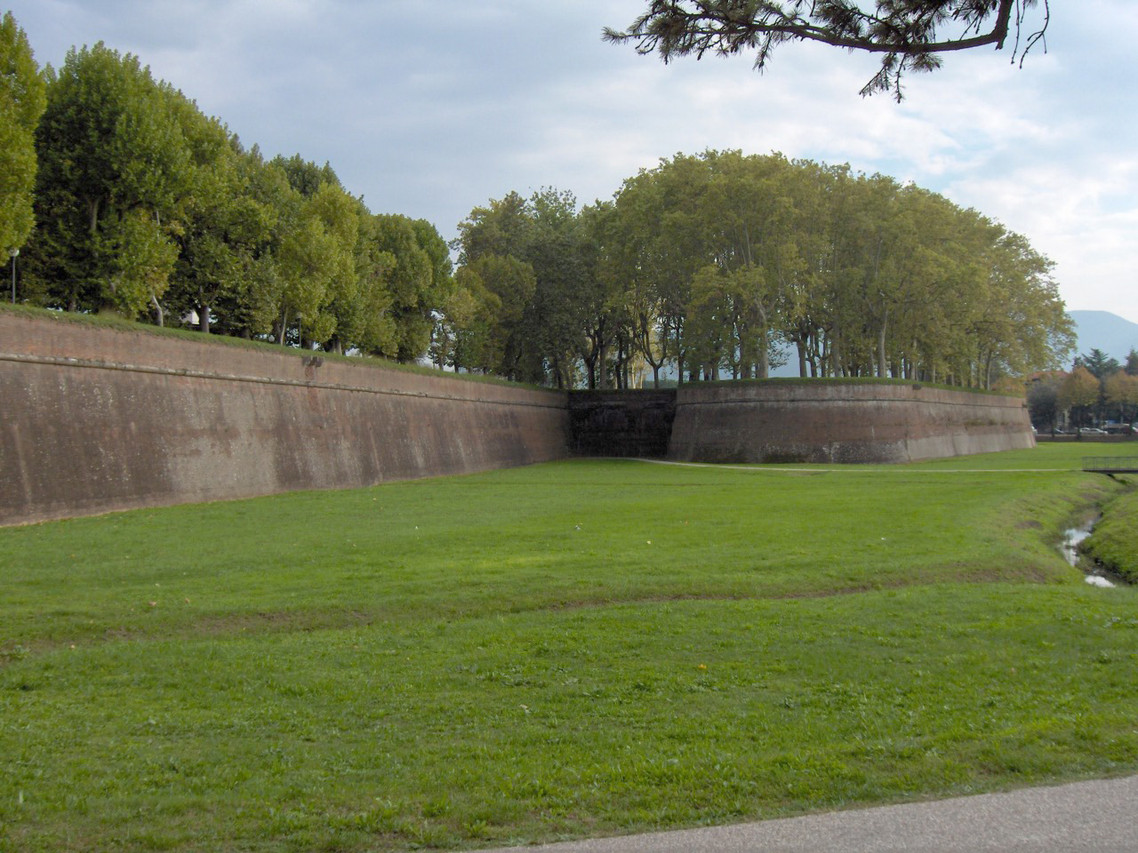 City walls; Lucca, Italy Own photo - photo made by Georges Jansoone on 10 October 2005